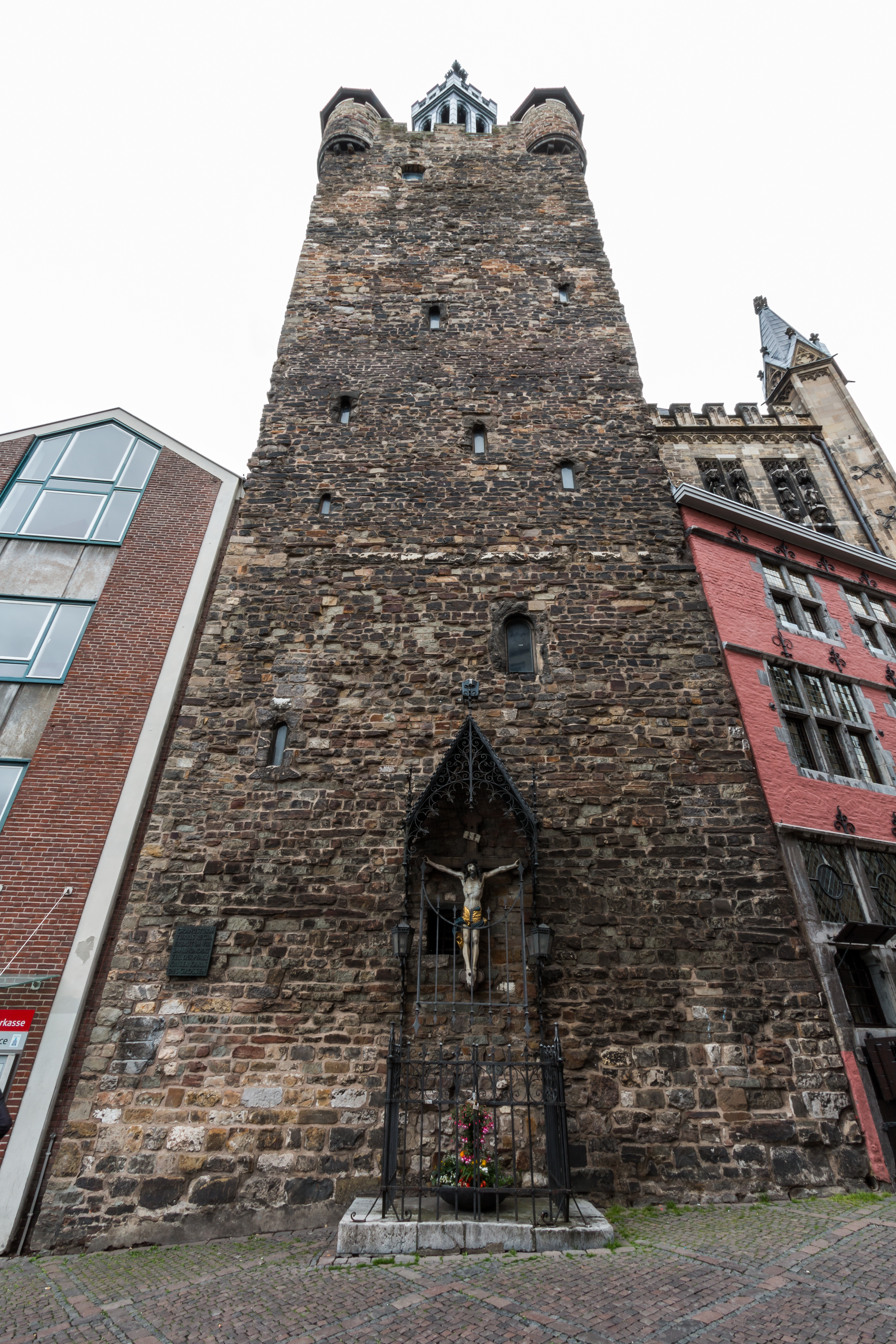 Granusturm (City Hall) in Aachen, North Rhine-Westphalia, Germany This image shows a heritage building in Germany, located in the North Rhine-Westphalian city Aachen. This image shows a heritage building in Germany, located in the North Rhine-Westphalian city Aachen (no. 0002).